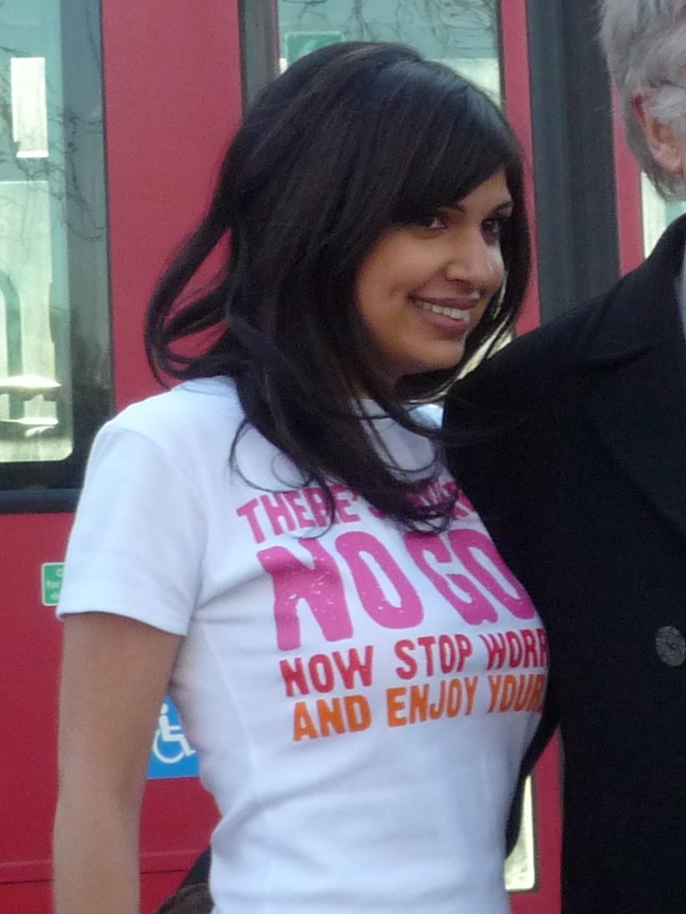 The British Atheist Ariane Sherine at the Atheist Bus Campaign's launch